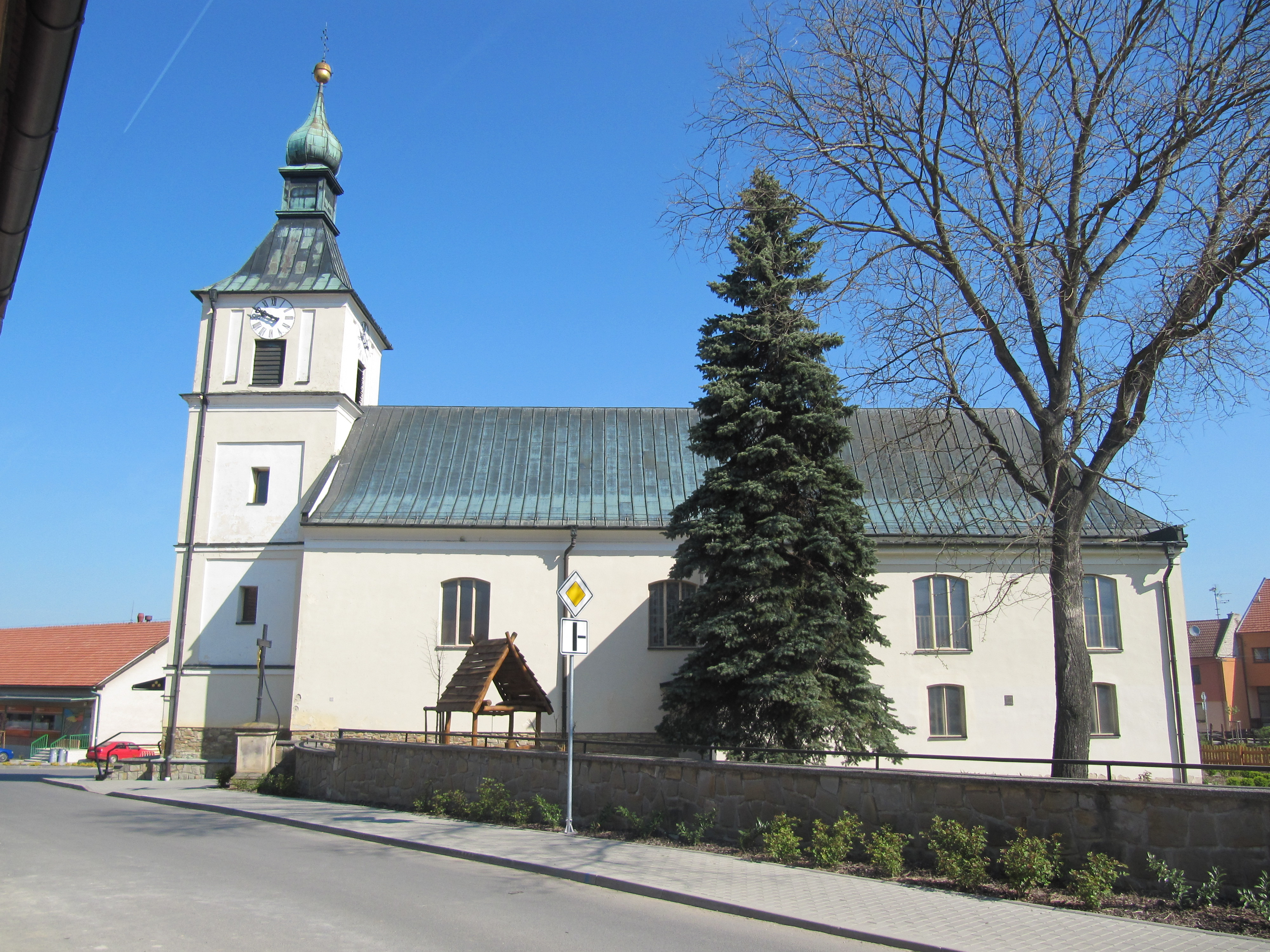 Boršice u Blatnice in Uherské Hradiště District, Czech Republic. Church of St. Catherine from 1788.